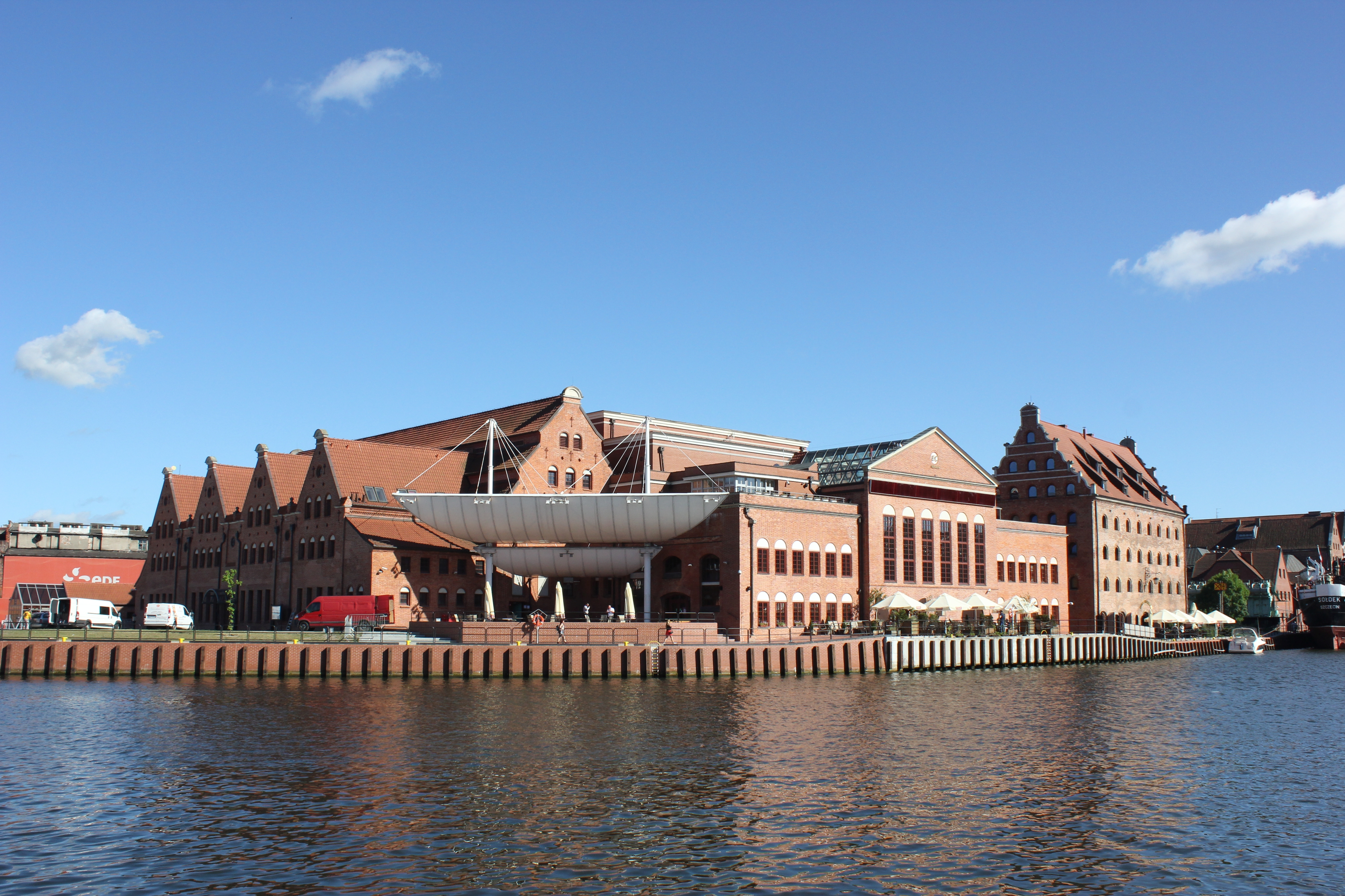 Gdańsk - Baltic Philharmonic in the former power plant